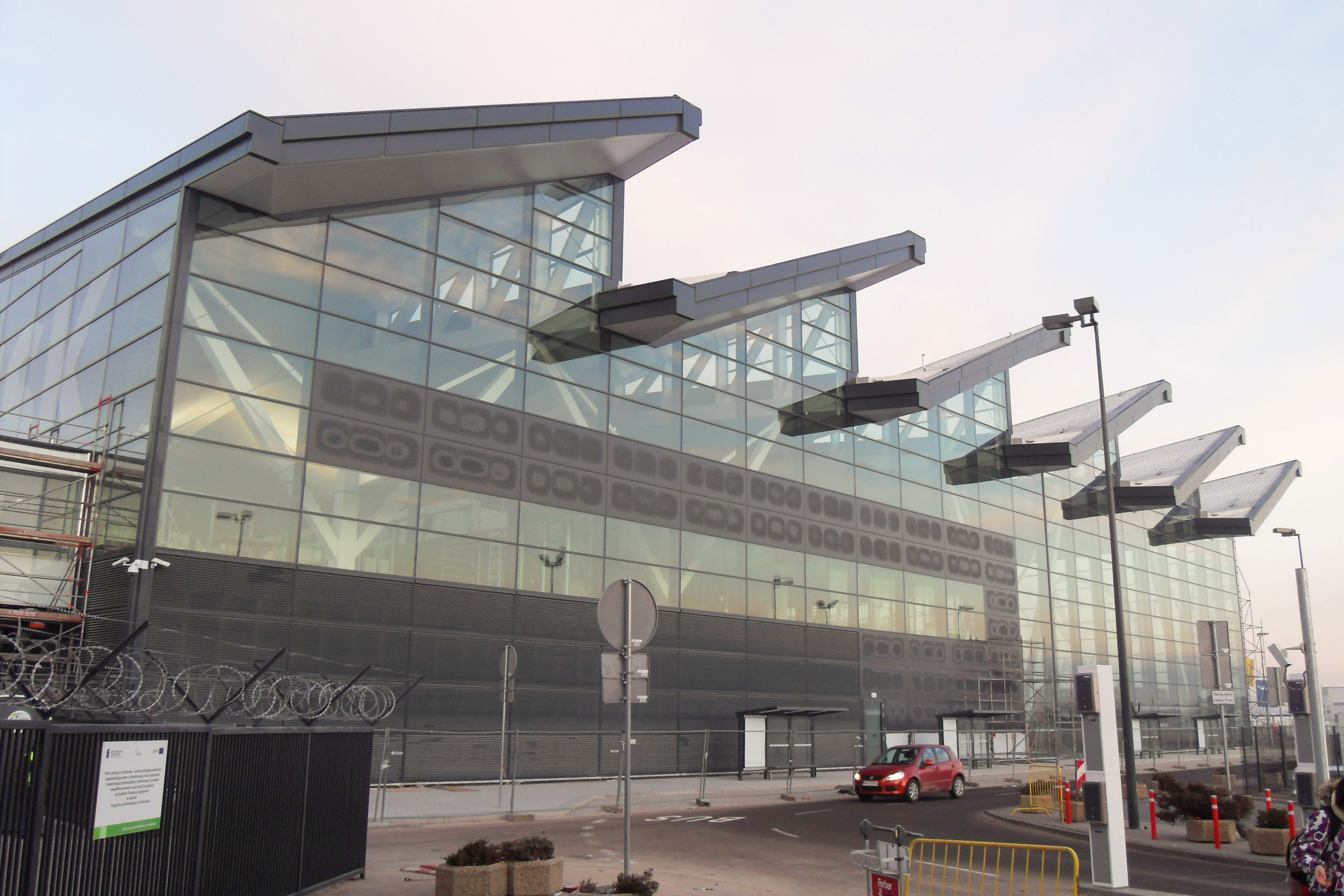 Gdansk Lech Walesa Airport (Poland) – the new terminal (T2).